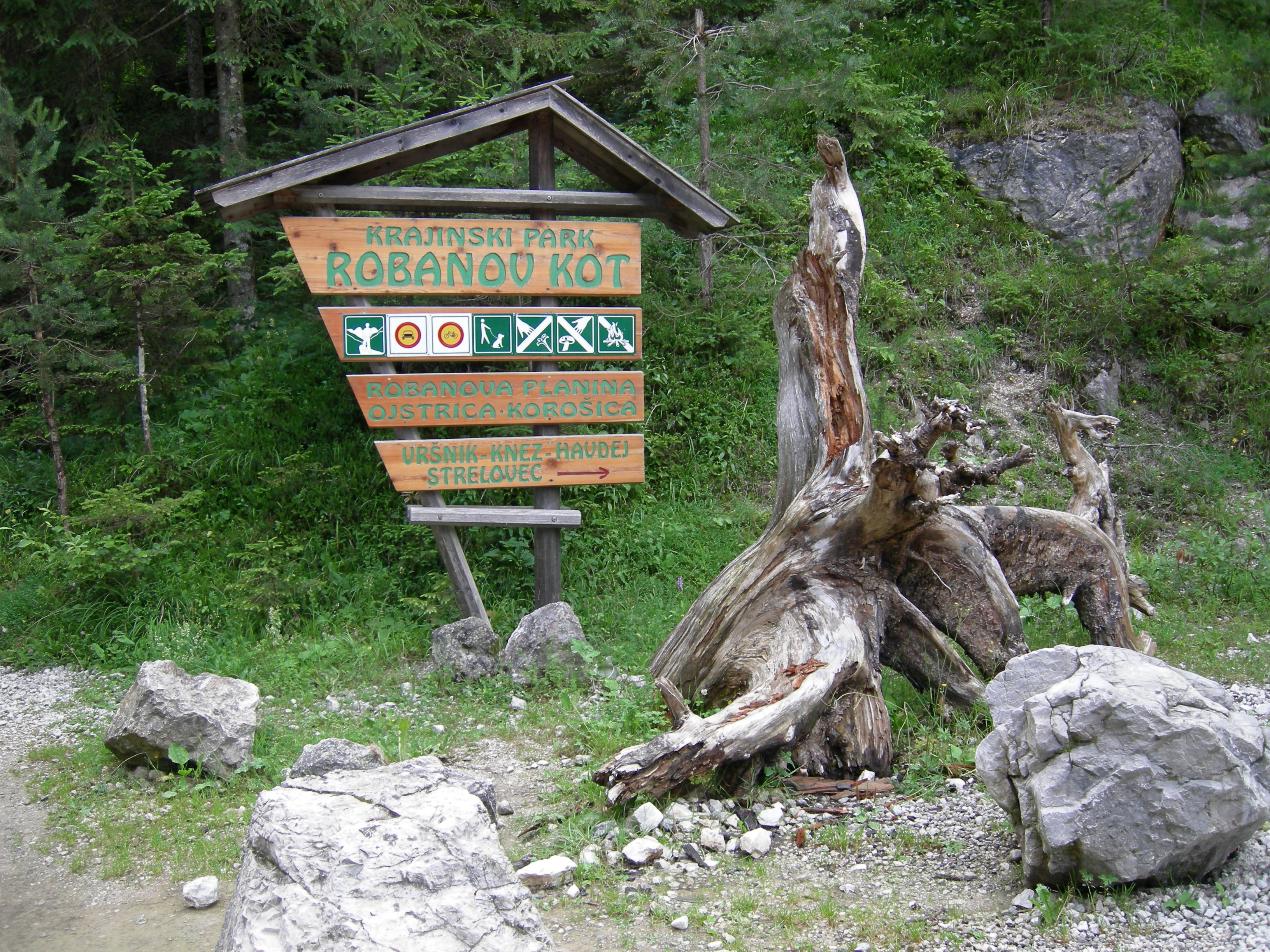 Valley in Slovenia Robanov kot was in 1987 due to its outstanding natural beauty, proclaimed a regional park.